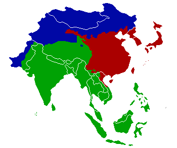 Map of the historic distribution of writing system or characters usage in Asia. shows the historical usage of Chinese characters. shows the historical usage of Indian characters (Indic scripts). shows the historical usage of the characters originating from Syriac script (Arabic script and Mongolian script).